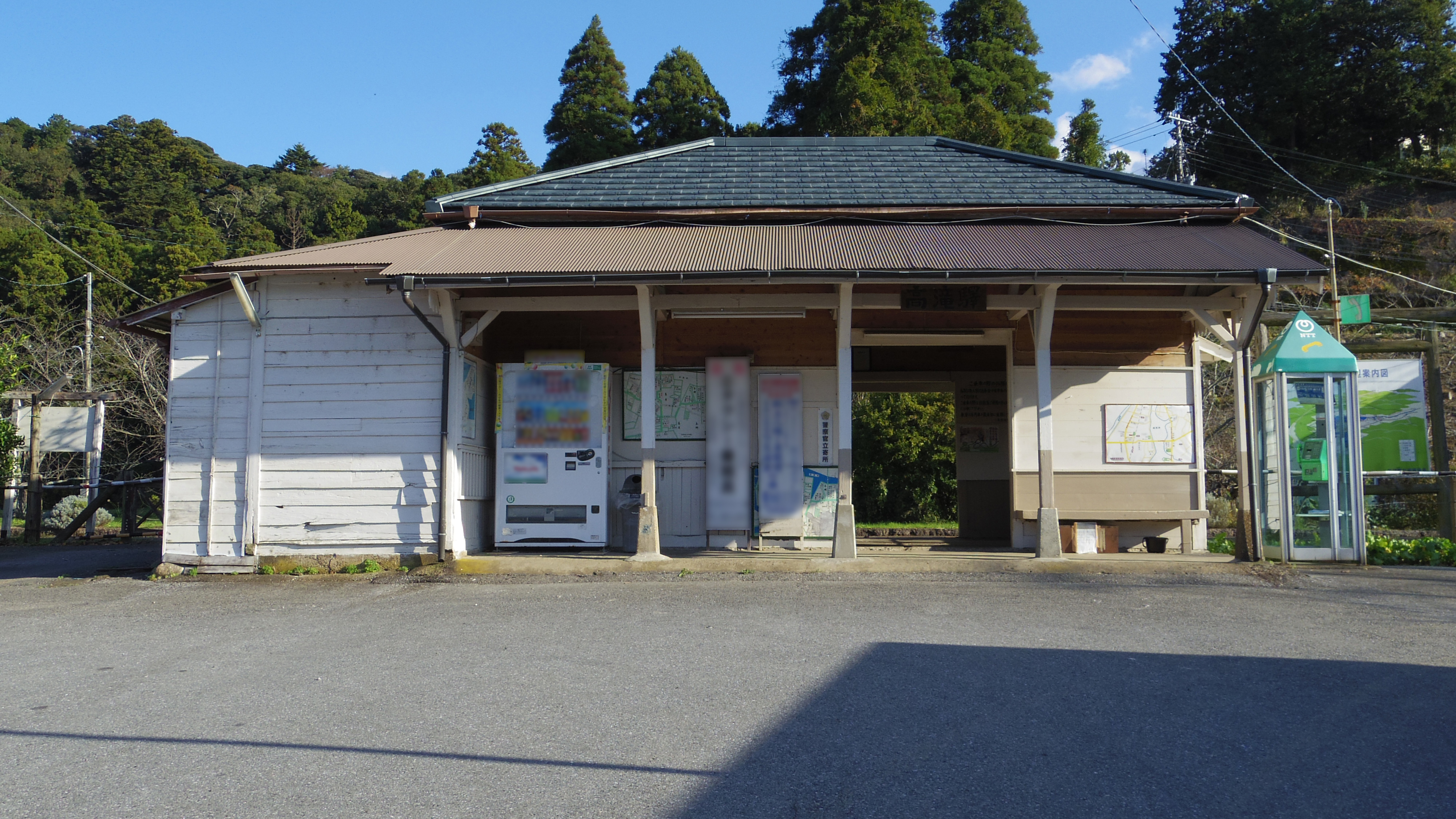 The building of Takataki Station on the Kominato Line in Ichihara city, Chiba prefecture, Japan